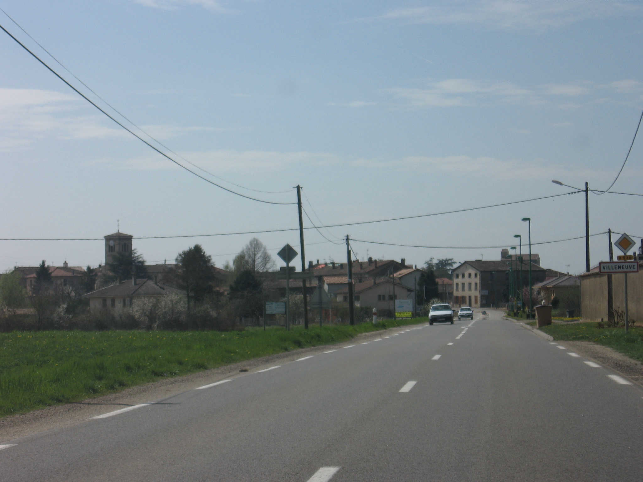 Villeneuve, Ain